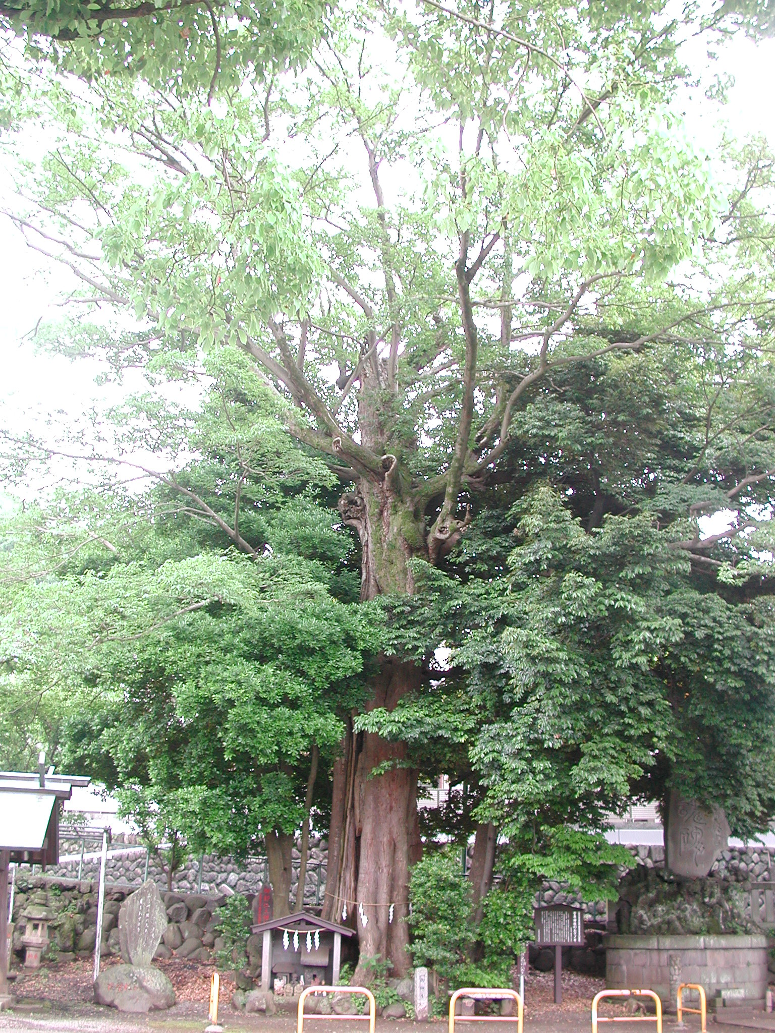 Mukunoki (Aphananthe aspera) in Sugawara Jinja (Kouzu, Odawara-shi, Kanagawa)